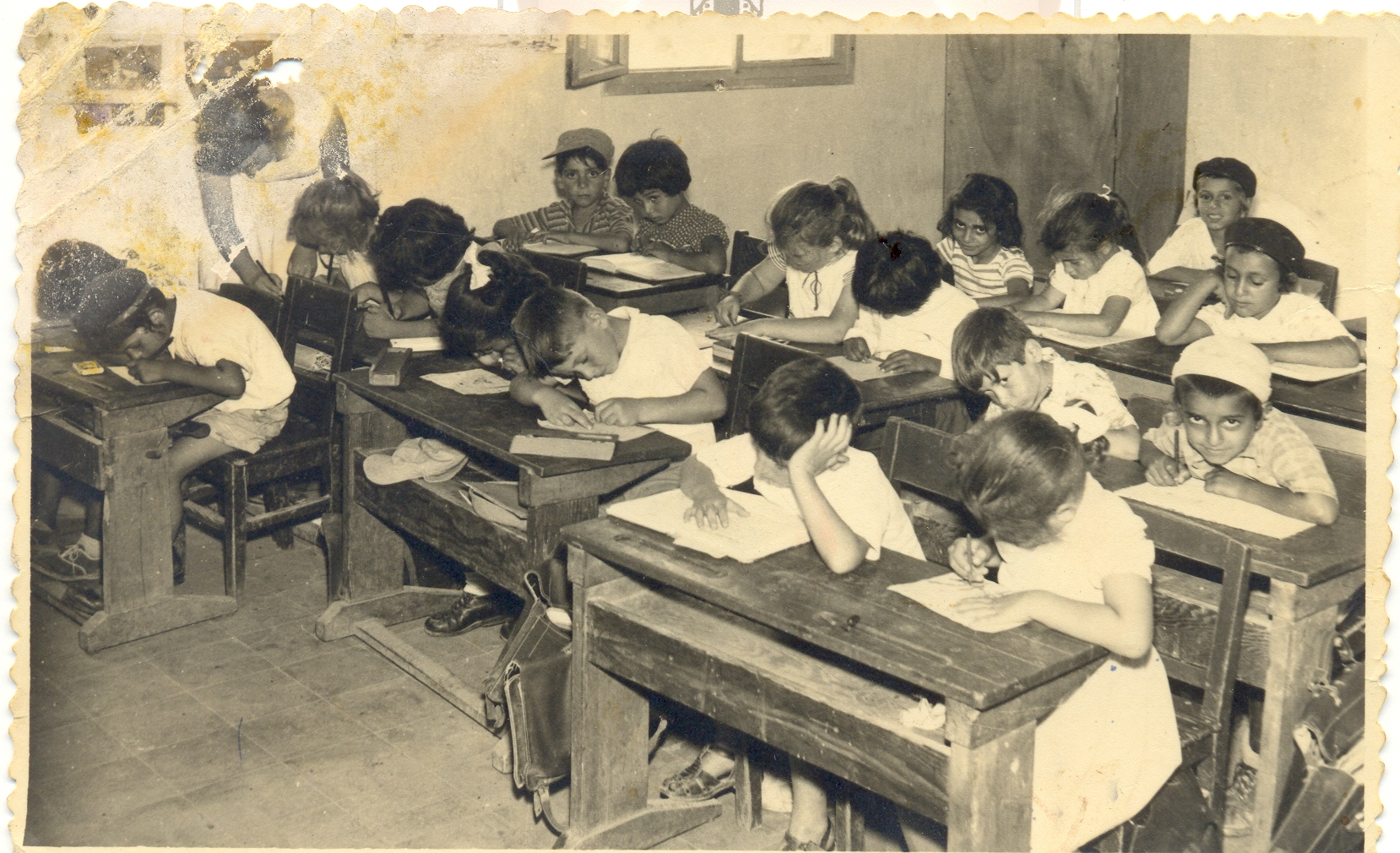 Education in Israel